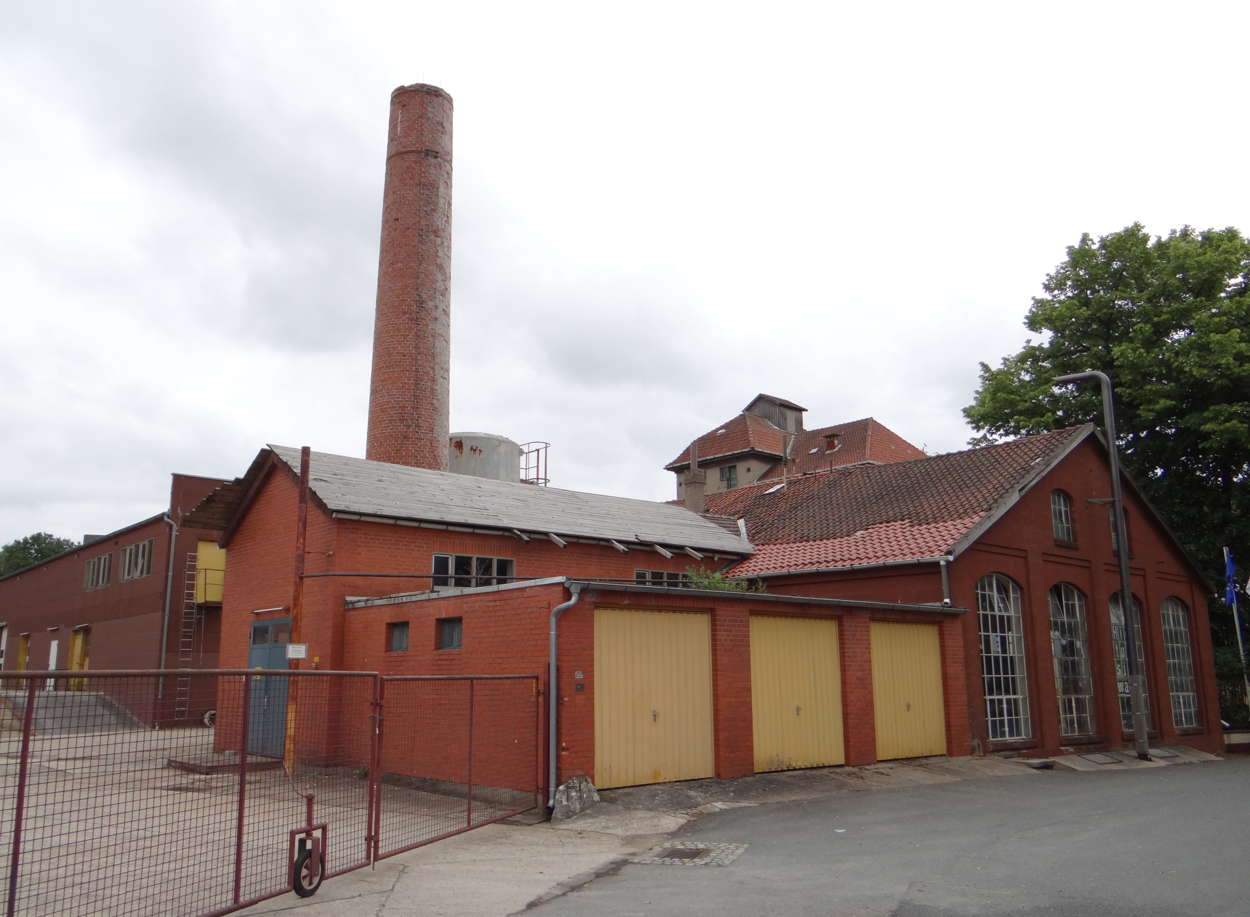 Food company Leman in Eystrup, Germany.